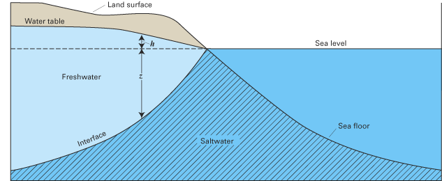 Saltwater intrusion - The figure shows the Ghyben-Herzberg relation. In the corresponding equation (not appearing in the image), the thickness of the freshwater zone above sea level is represented as h and that below sea level is represented as z.